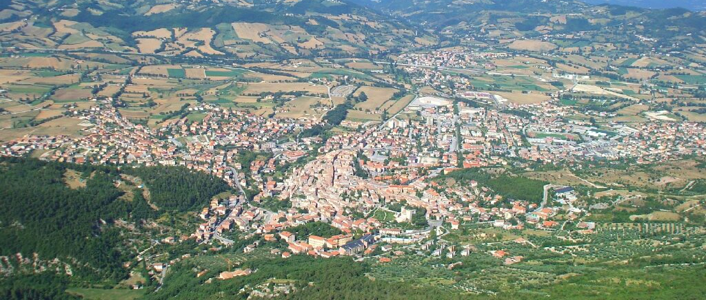 Landscape of Gualdo Tadino, Italy